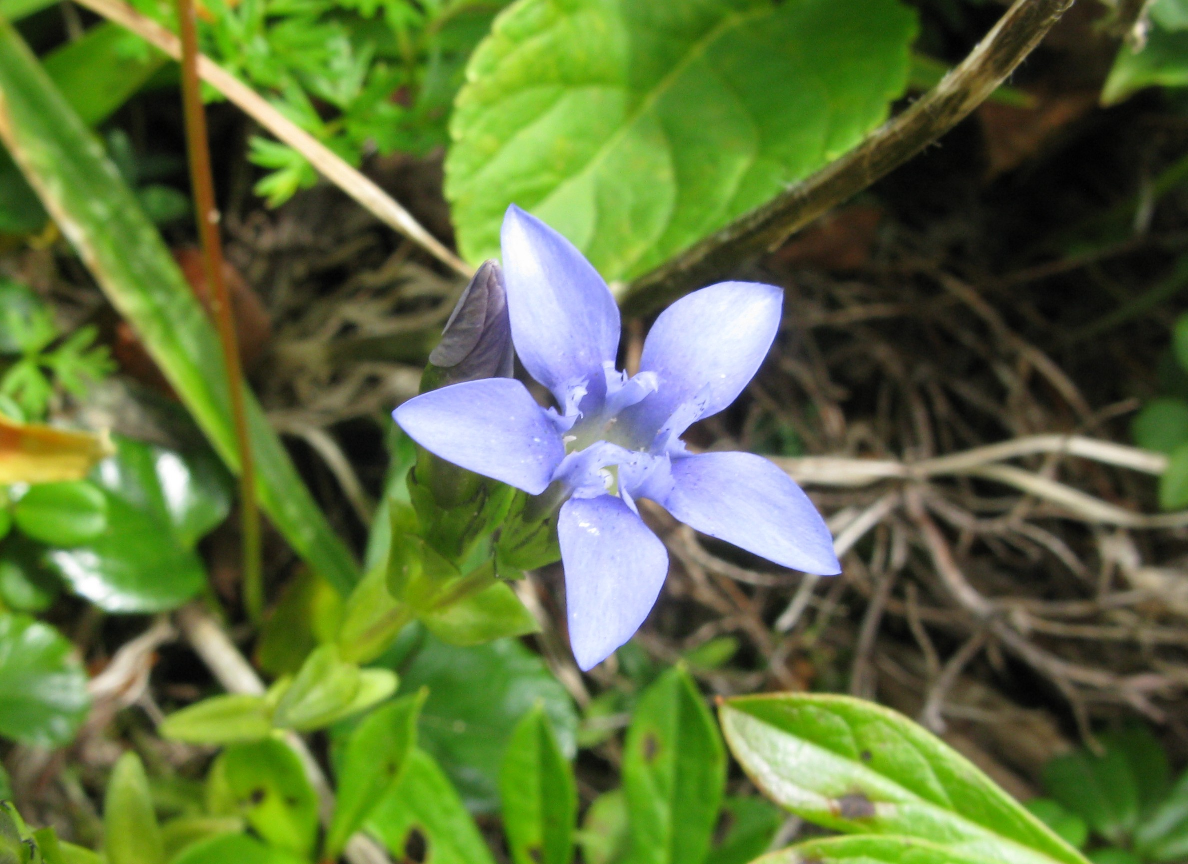 Gentiana nipponica var. robusta, Mt. Iidesan, Fukushima pref., Japan